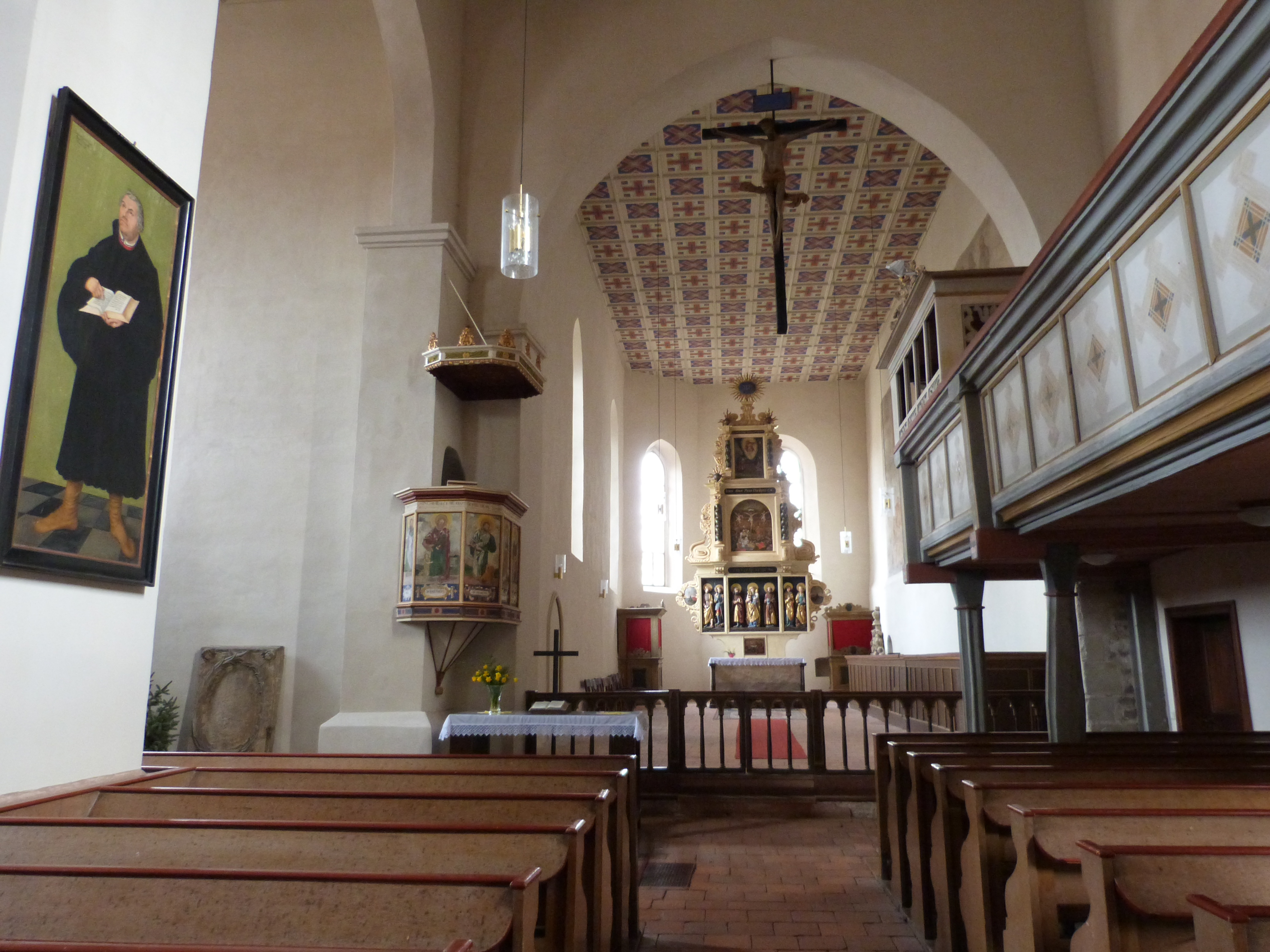 Interior of Brehna church (Sandersdorf-Brehna, Anhalt-Bitterfeld district, Saxony-Anhalt)